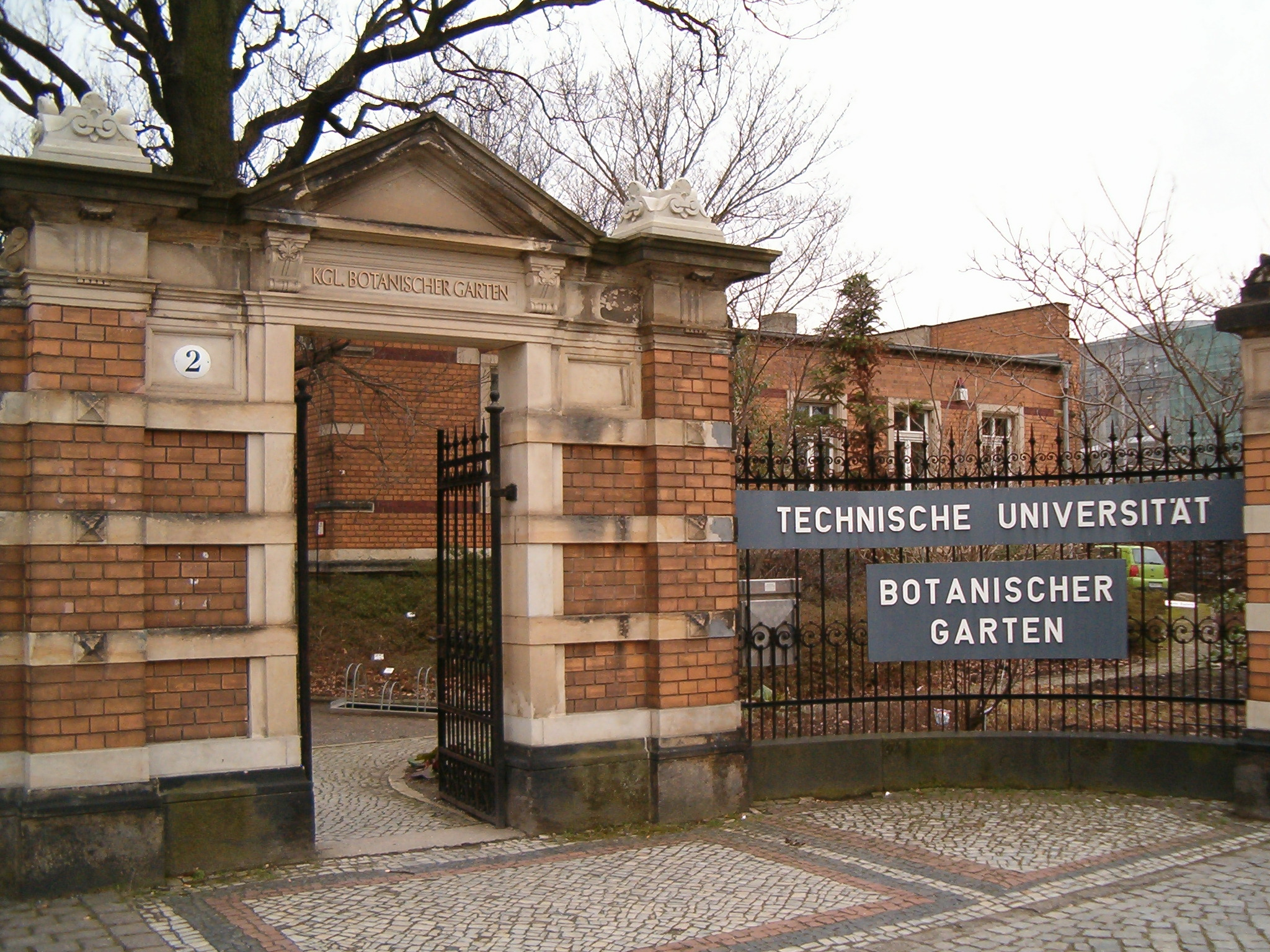 Botanical Gardens Potsdam, Germany